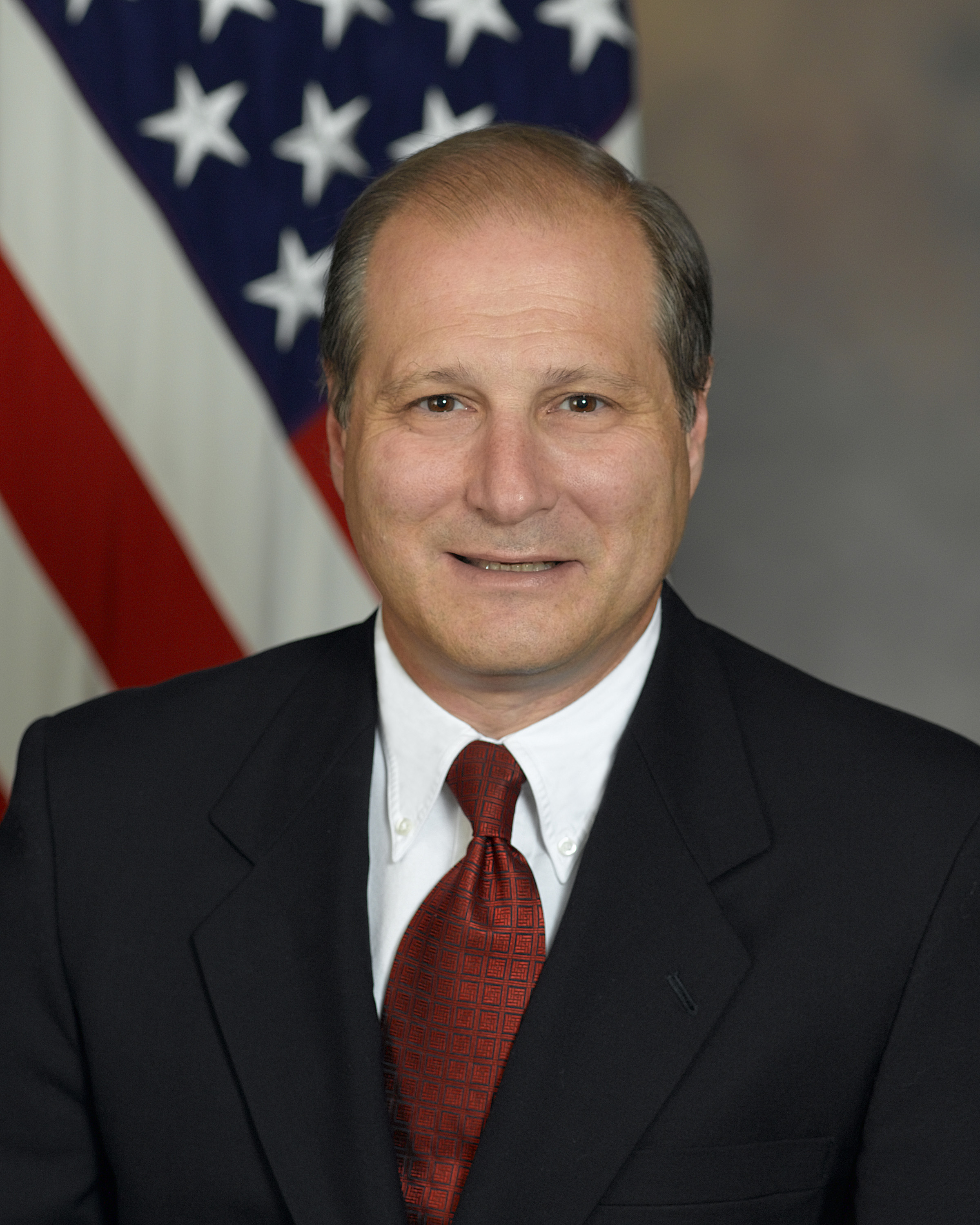 Undersecretary of Defense for Policy Eric S. Edelman.